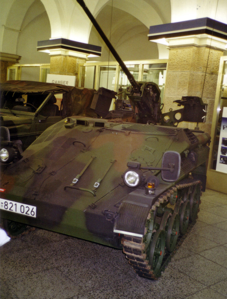 Light air-transportable armoured fighting vehicles Wiesel 1 exhibited at the of History Museum of the German Armed Forces (Bundeswehr) in Dresden, Germany.